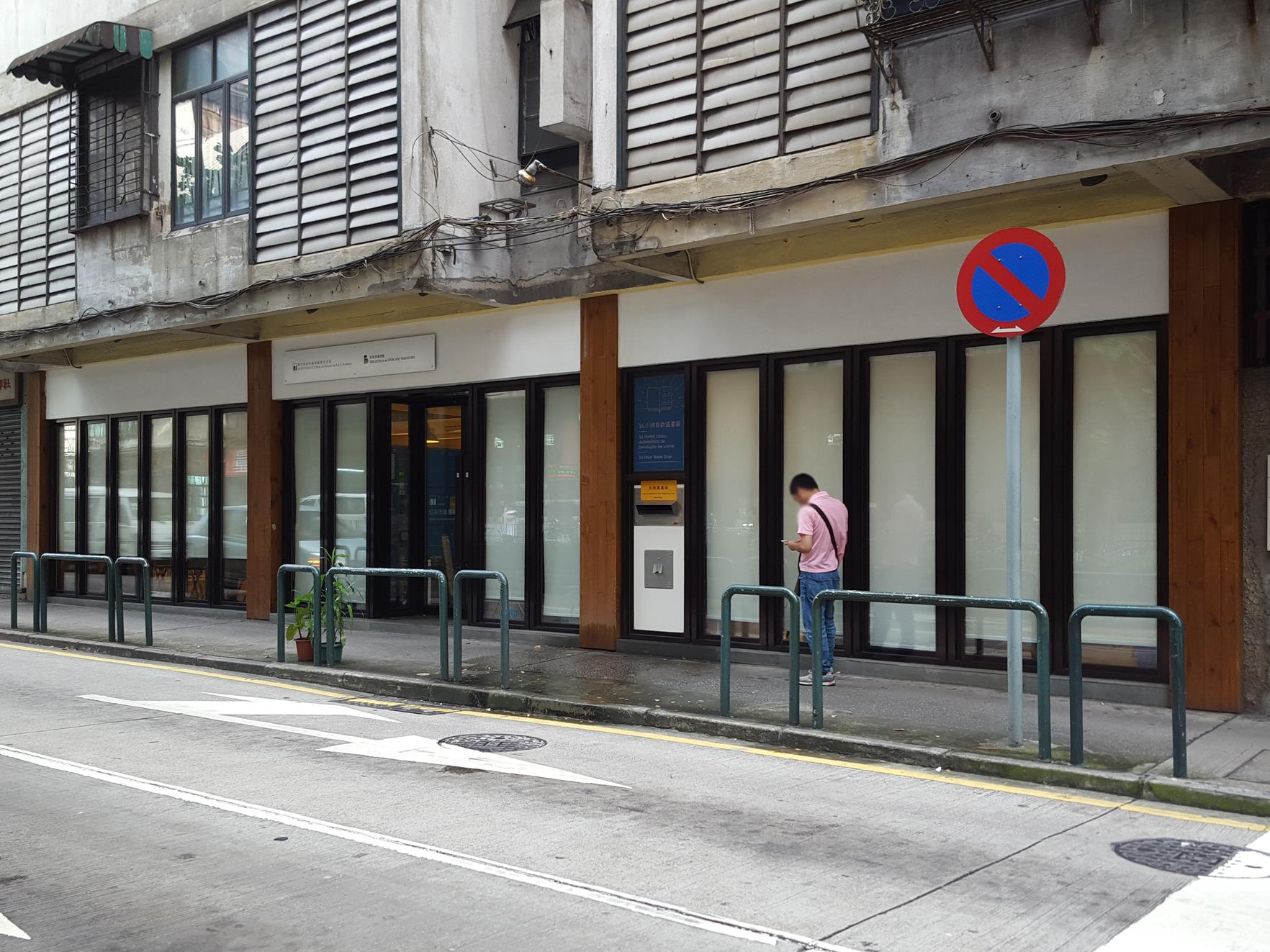 Red Market Library